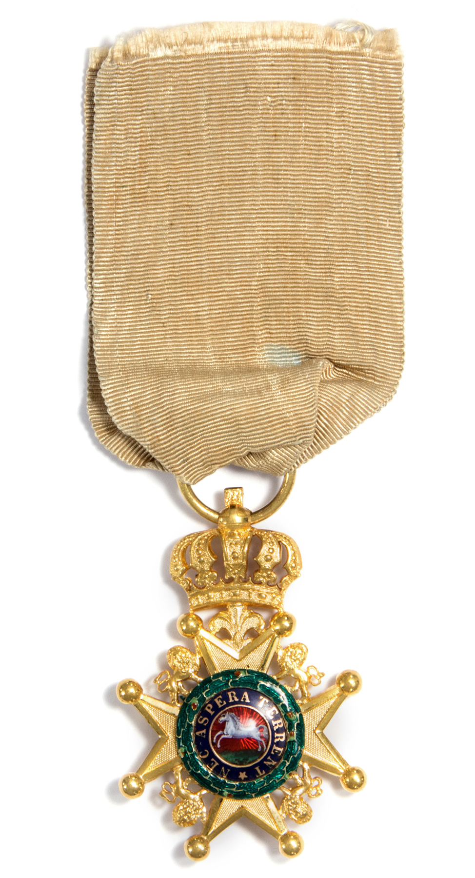 Royal Guelphic Order of the Kingdom of Hannover, original piece in gold. The former blue ribbon faded to light yellow. Property of Hofer Antikschmuck, Berlin (Germany).